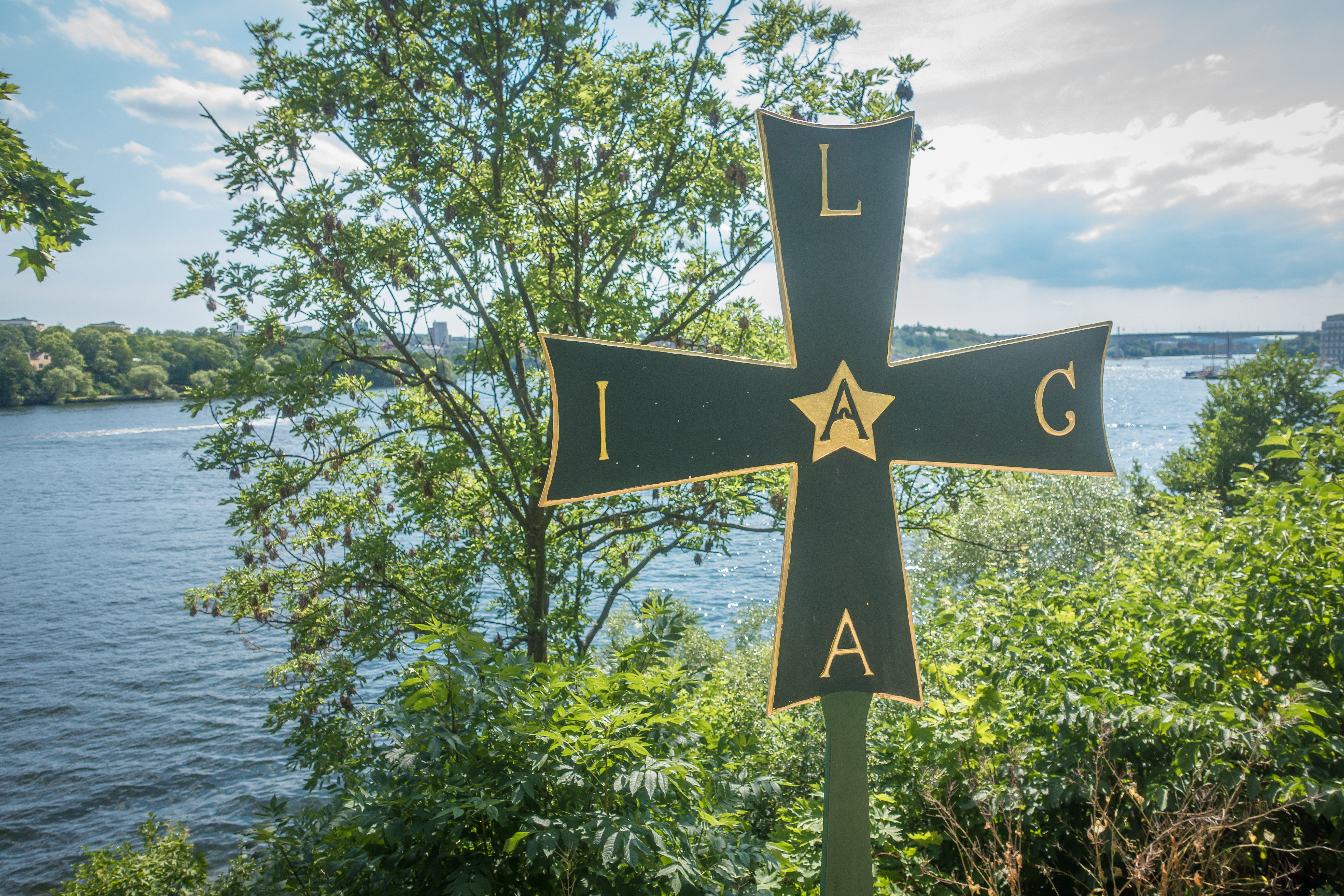 Coldinukors below the Russian embassy in Marieberg on Kungsholmen in central Stockholm. The Seafarers' Order Arla Coldinuorden is responsible for the set.